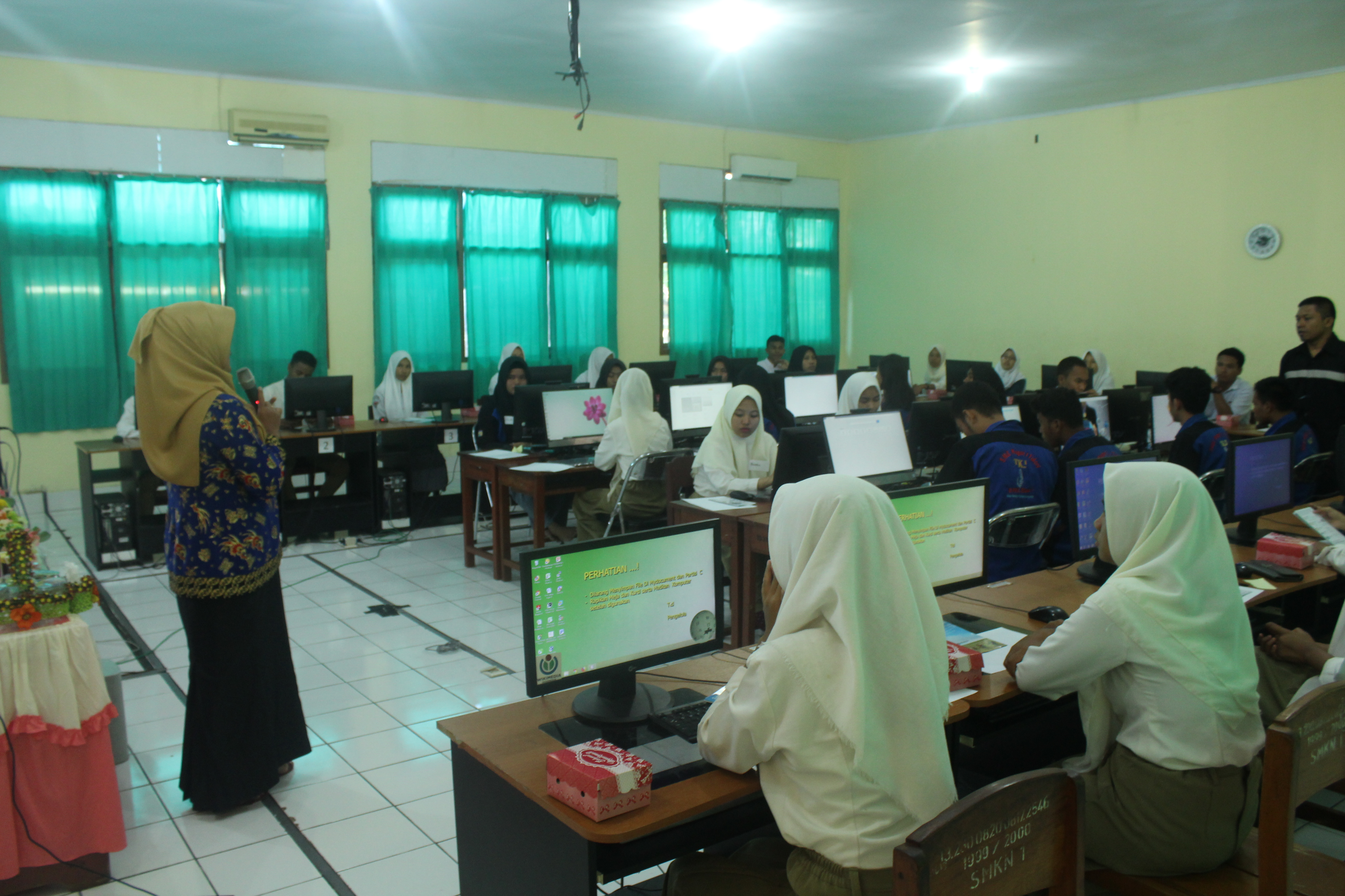 Wikilatih dengan peserta siswa-siswi SMKN 1 Tidore di laboratorium komputer mereka.